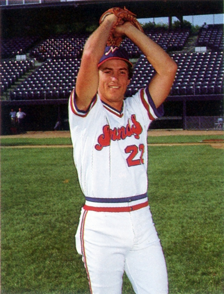 Shortstop Doug Baker of the 1985 Nashville Sounds Minor League Baseball team of the American Association